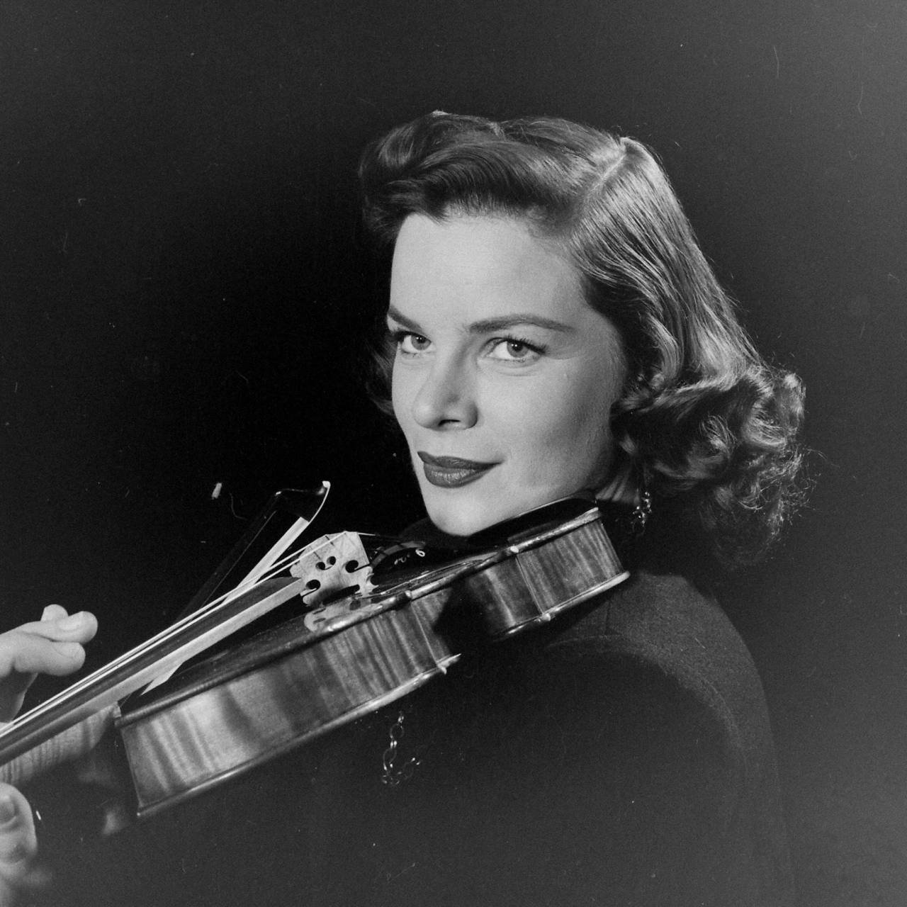 Marcia Van Dyke playing the violin